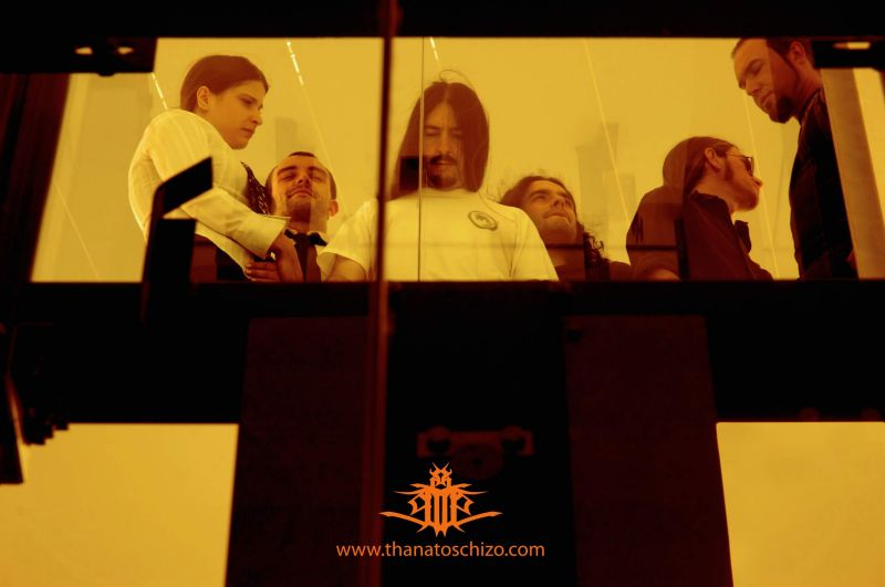 Promoshoot for ThanatoSchizO's album Zoom Code at Vila Real (Portugal) 2007